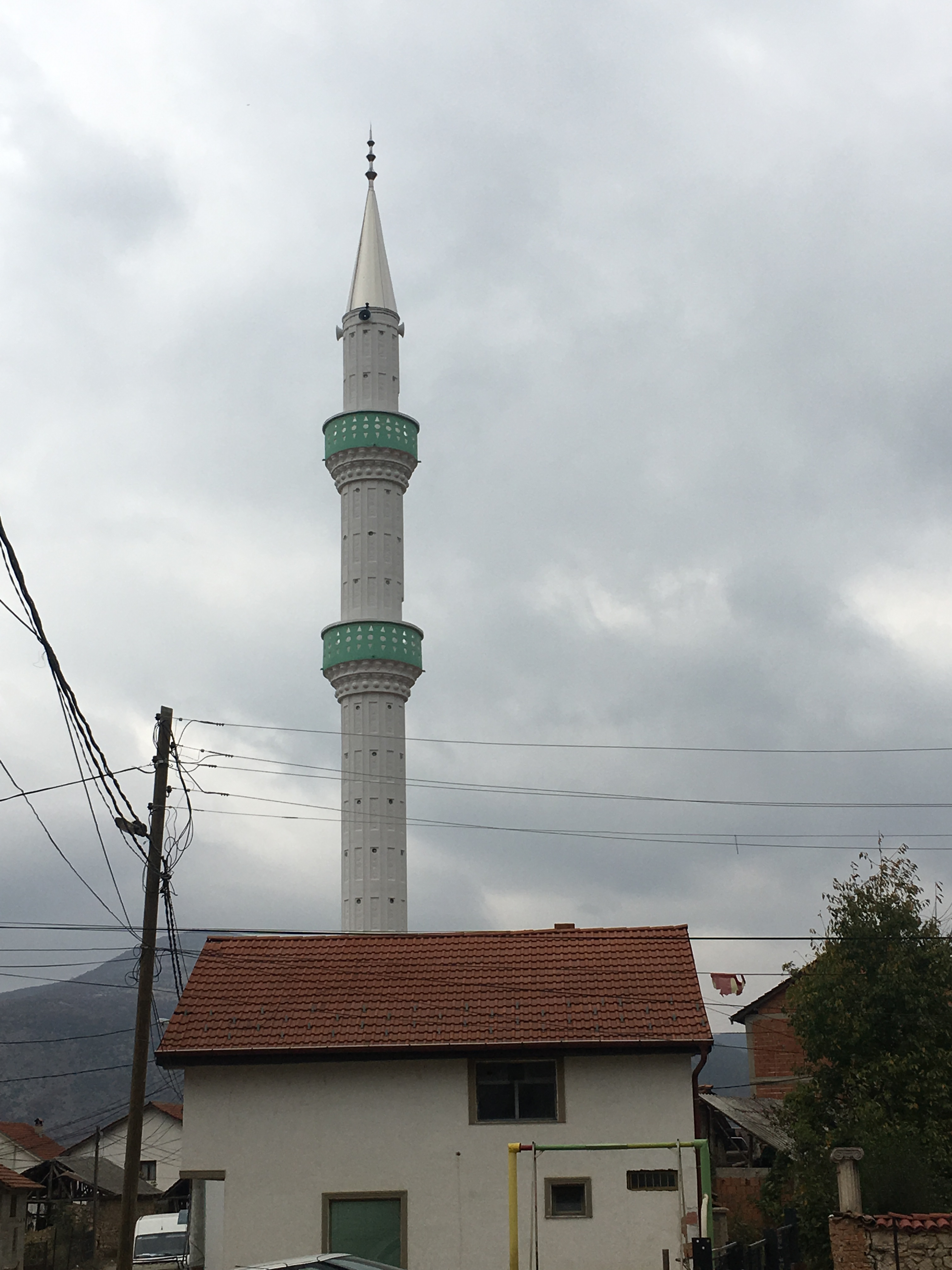 Wikiexpedition to Kopačka